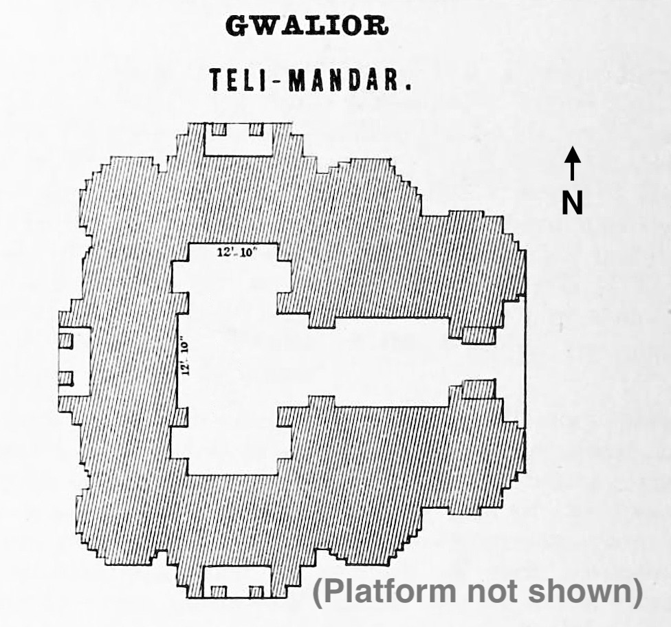 The plan of Teli Ka Mandir, also referred Telika Temple or Telika Mandir. It features a rectangular sanctum which is unusual in a Hindu temple where square sanctums predominate. According to Michael Meister, the sanctum of this temple is actually a stack of 2 squares, or more precisely the temple has a 4x6 square plan. Its outer dimensions were enlarged to a 8x10 square structure. This temple was an innovative experimentation, not only in its base plan, but its extensive use of 1:1, 1:2, 1:3, 2:3, 3:5, 2:5 and 4:5 harmonic ratios in its architecture. See: Geometry and Measure in Indian Temple Plans: Rectangular Temples, Michael Meister (1983)